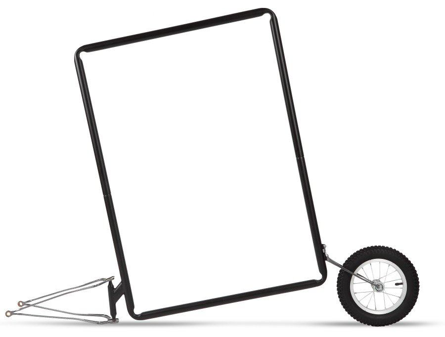 Bicycle advertising trailer